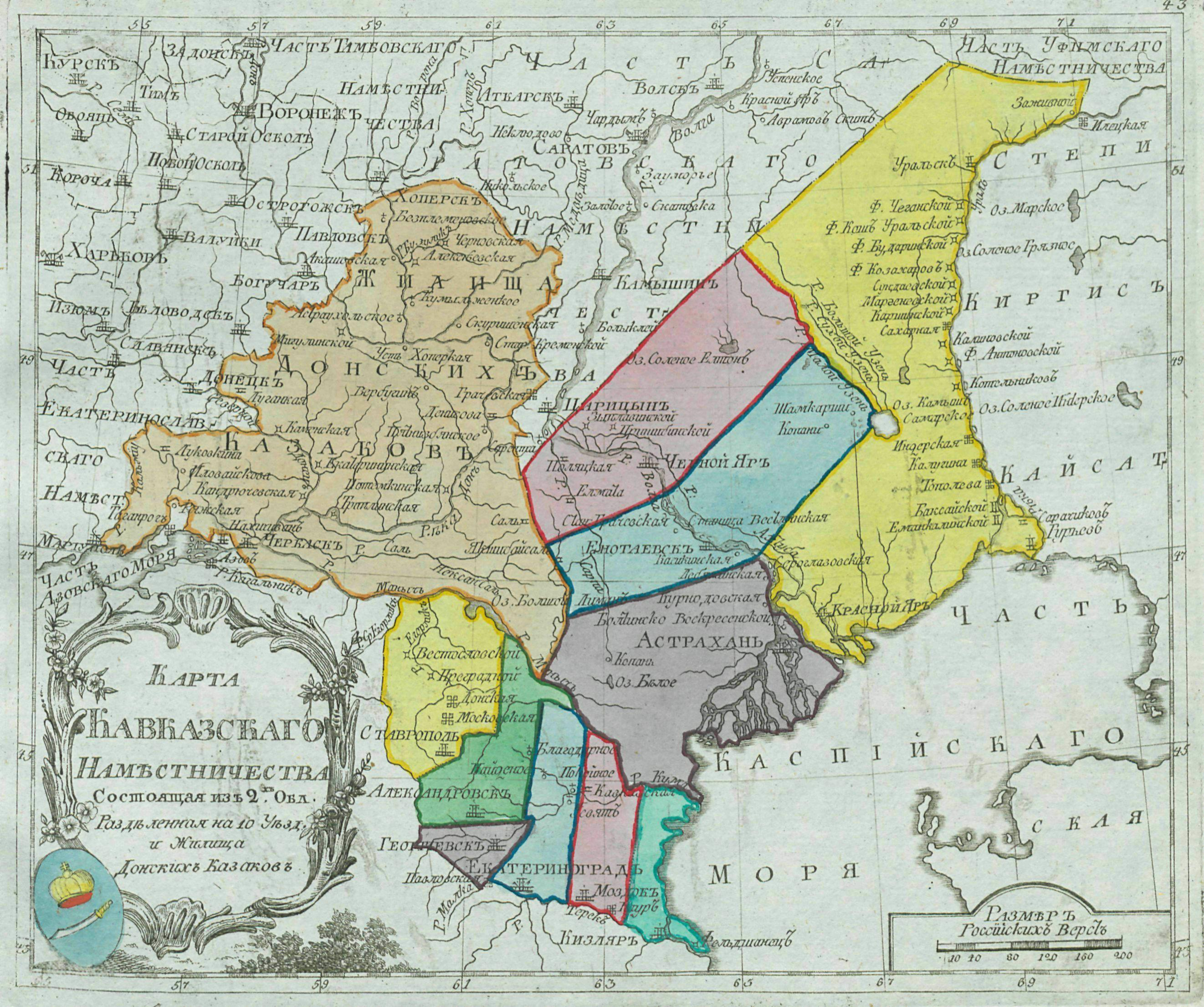 Small atlas of the Russian Empire (1792). Map of 1st Caucasus Viceroyalty (Namestnichestvo) and Don Voisko (map 42).